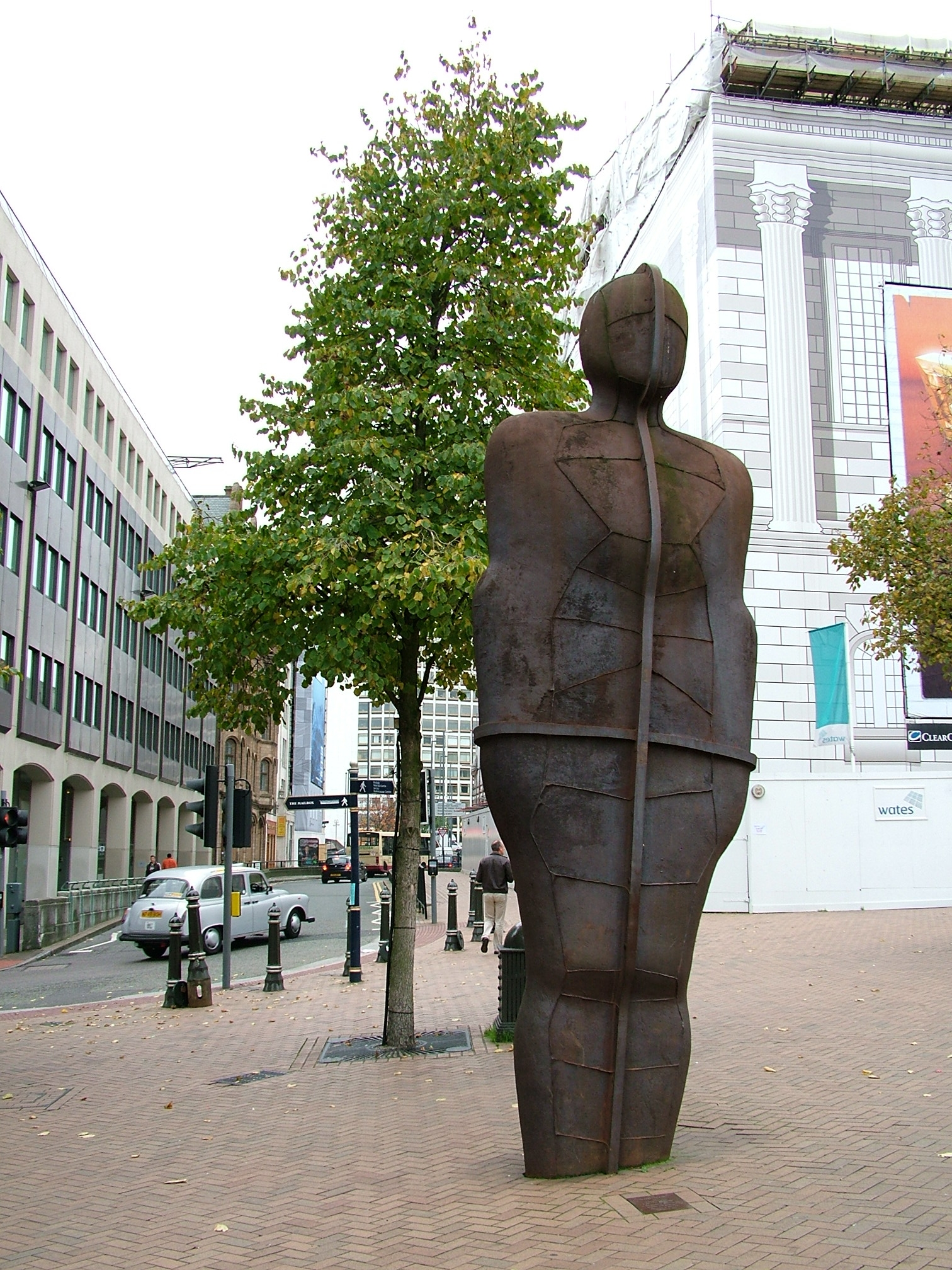 Iron : Man. Statue by Antony Gormley located in Victoria Square, Birmingham